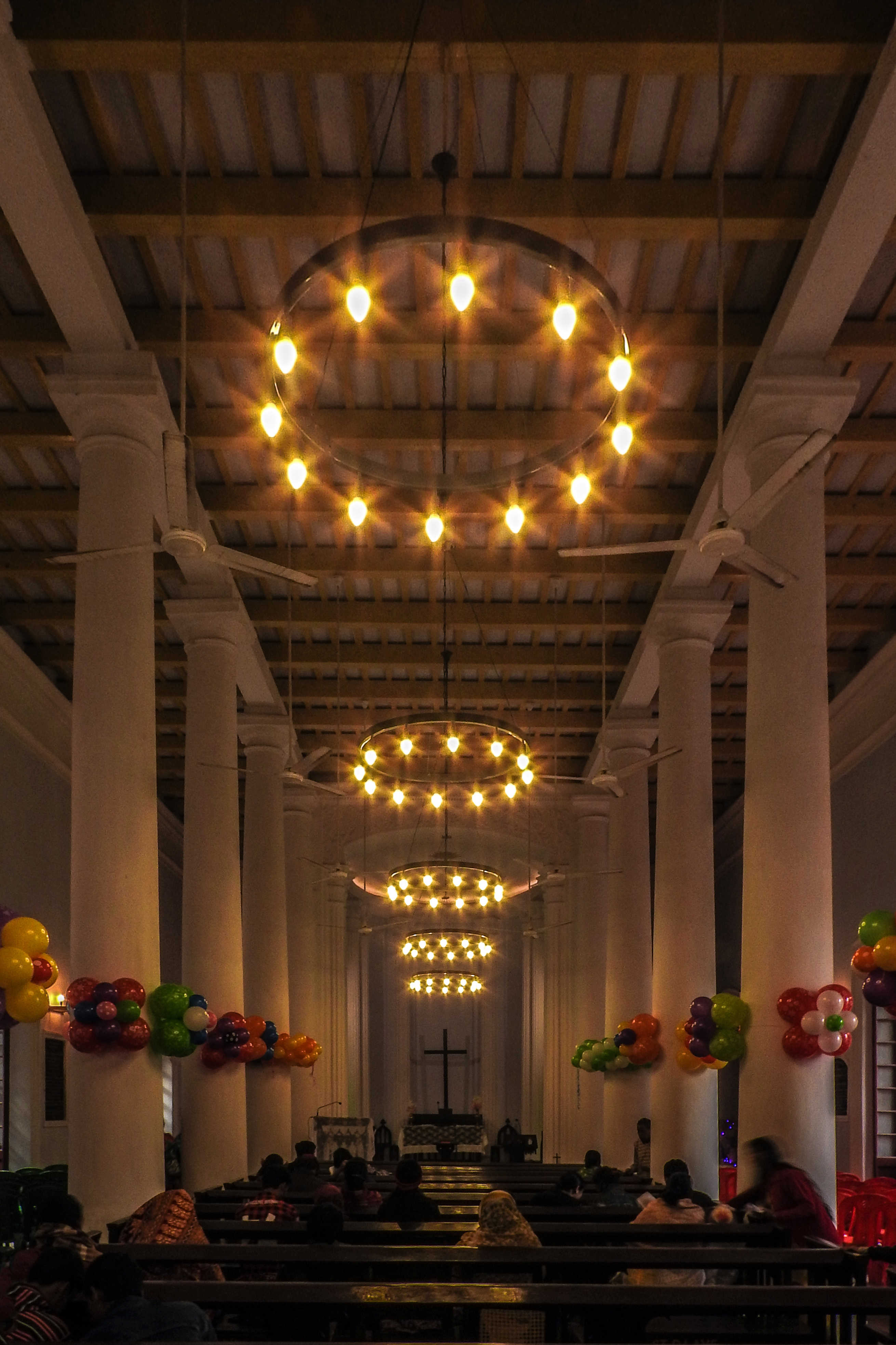 Christmas Day, 2016